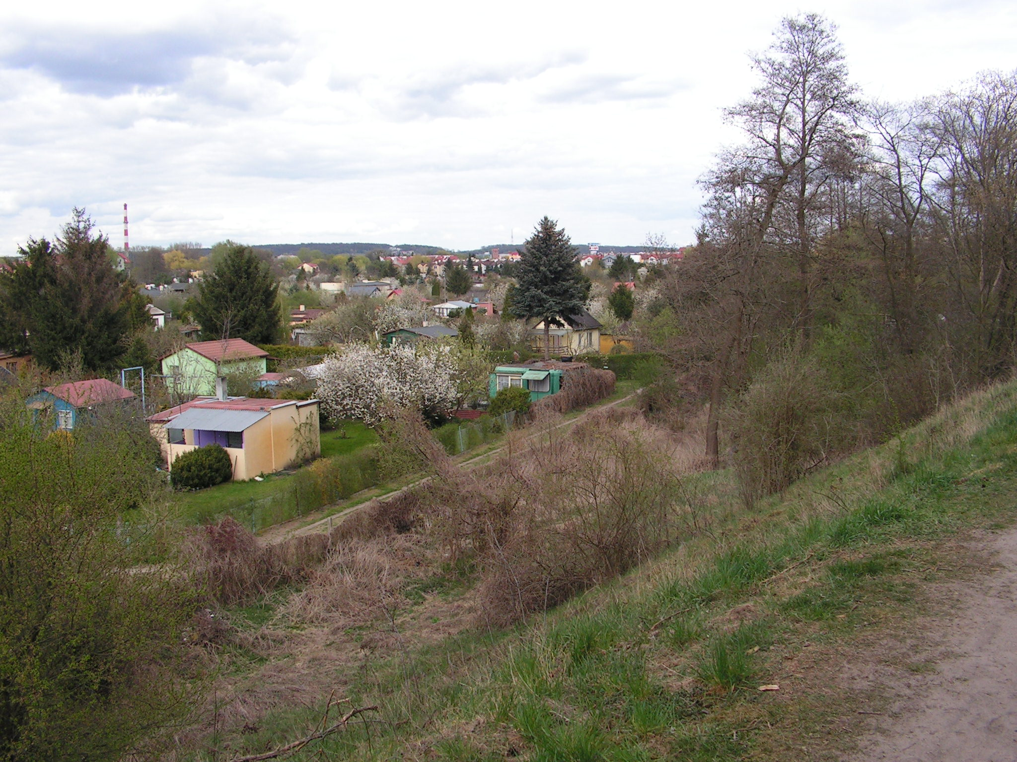 Rodzinne Ogrody Działkowe Przyszłość (Familiar Garden Lots named Future) on the Świech settlement in Włocławek, view from the up of the valley.